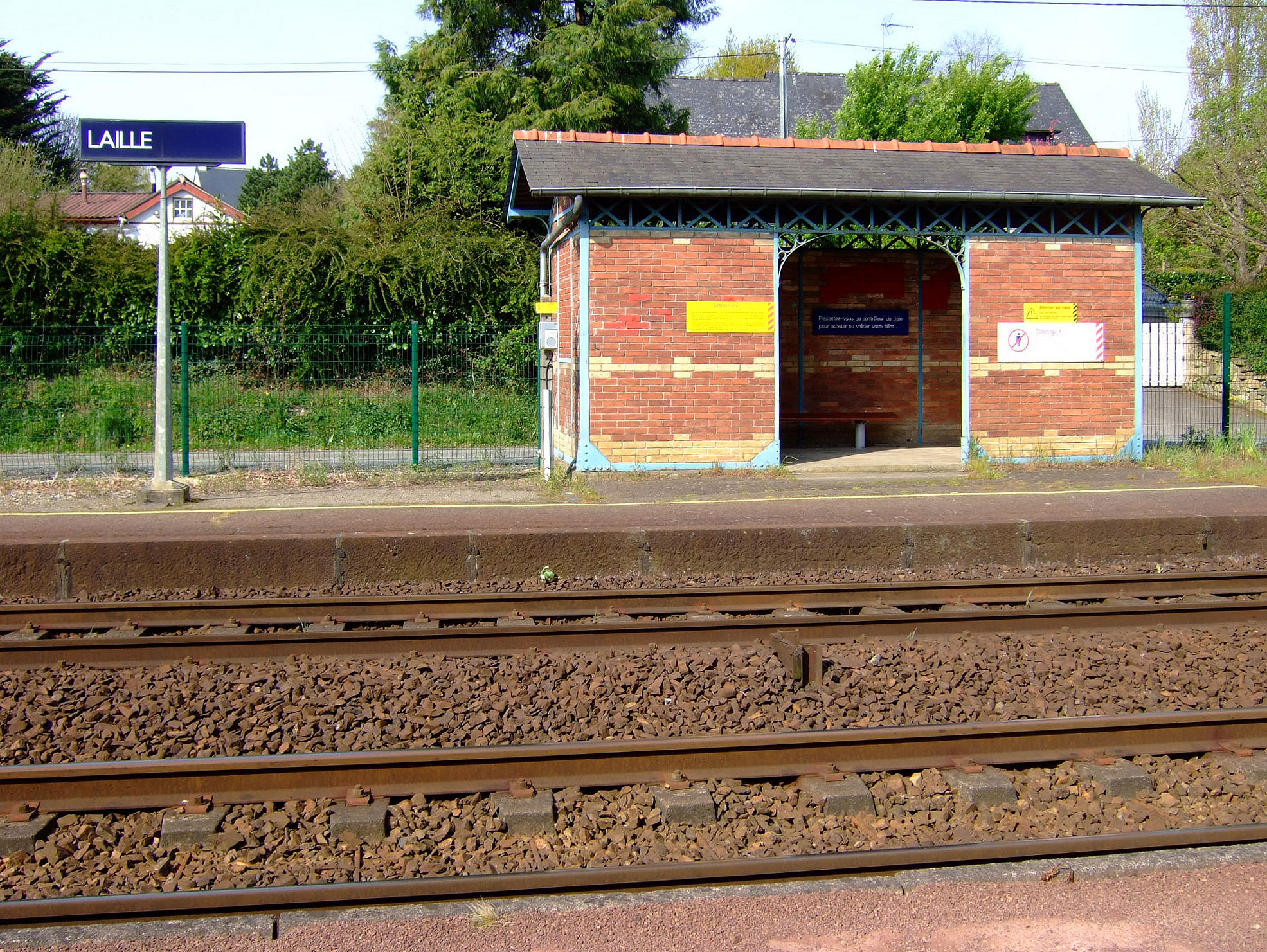 Laillé's train station